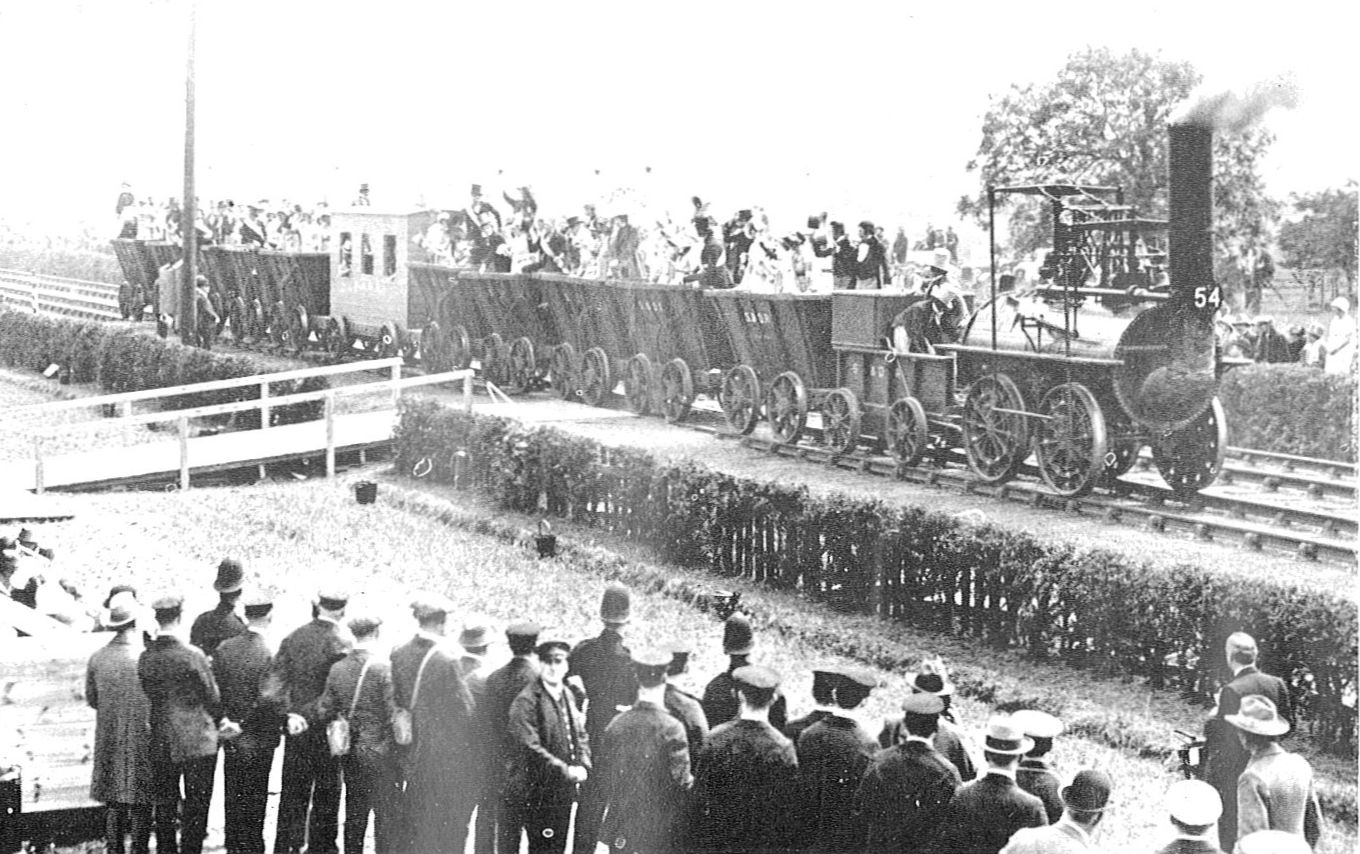 Locomotion No 1 of the Stockton & Darlington Railway at their 1925 100th anniversary cavalcade. Note that the 100 year old locomotive is indeed hauling the train, although it's actually propelled by a small petrol engine in its replica tender and the chminey smoke is from burning oily rags for effect!